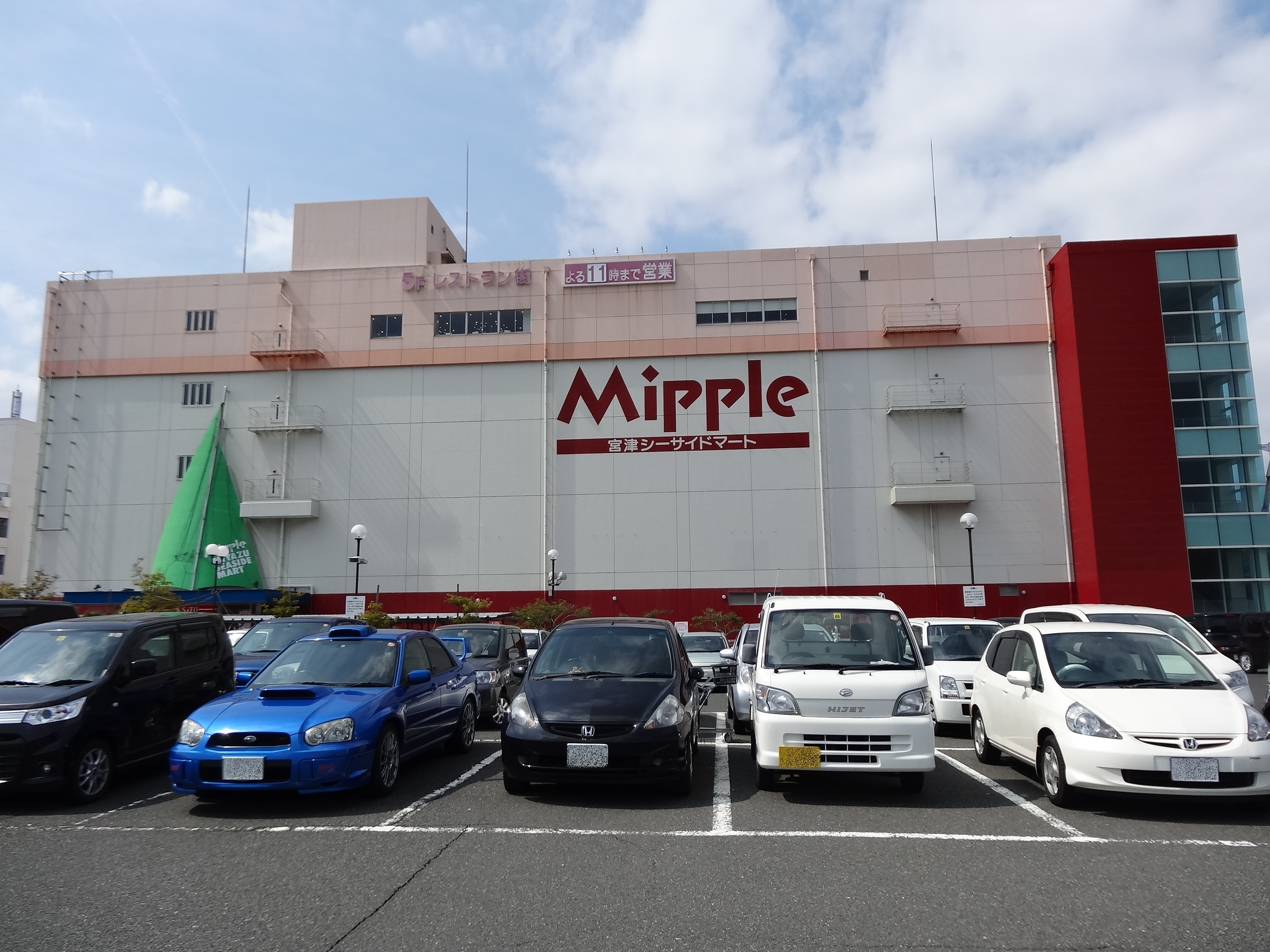 Miyazu Seaside Mart "Mipple" in Central Miyazu City, Kyoto Prefecture, Japan.